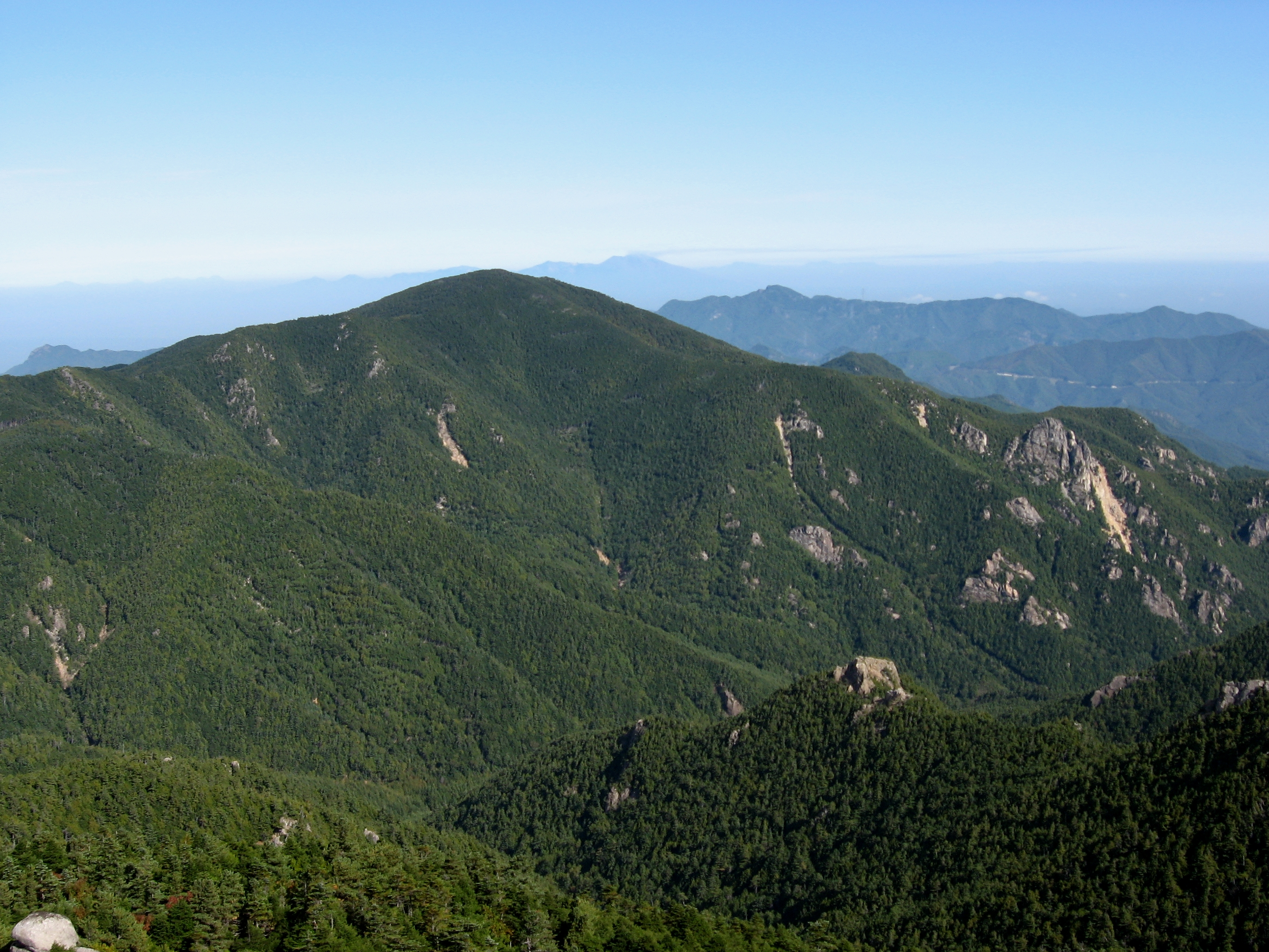 Mt.Ogawa seen from Mt.Kimpu, Okuchichibu, Japan.